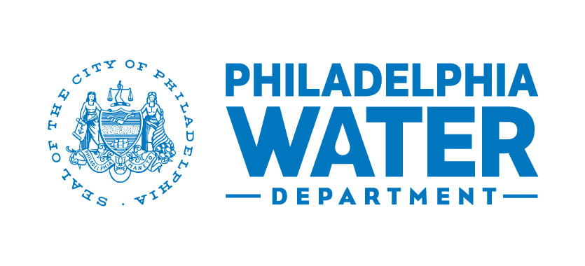 City of Philadelphia, Philadelphia Water Department logo and seal.